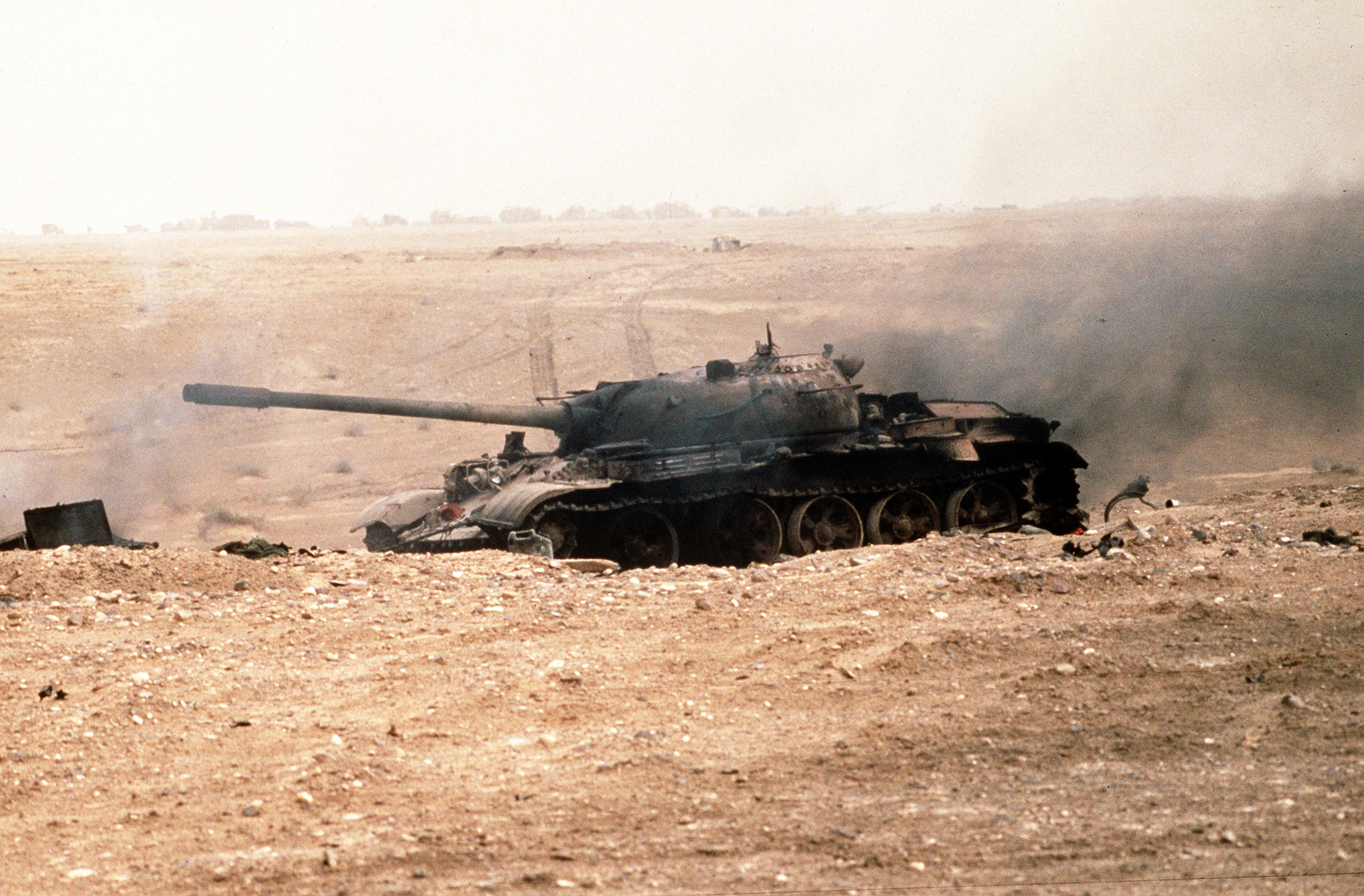 A view of an Iraqi T-55 main battle tank destroyed by a Coalition attack near the Kuwait border during Operation Desert Storm. VIRIN: DA-ST-92-08397